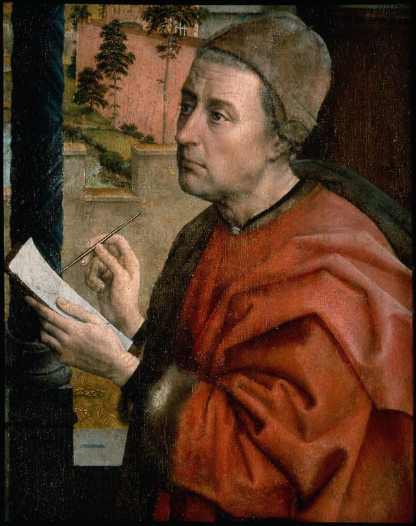 Detail from Rogier van der Weyden, Saint Luke Drawing the Virgin, Boston Museum of Fine Arts